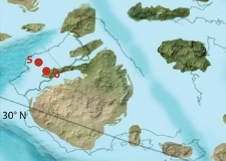 Late Jurassic ~Tithonian ~150 Ma paleogeography of Iberia at 30 degrees North Cut out.